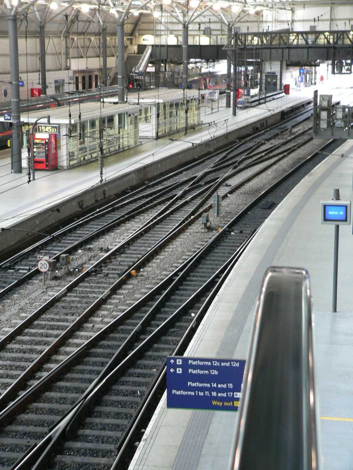 A view of the crossing point of rails in Leeds City railway station that allow trains from the platform to reach the centre through track and vice versa in either direction.